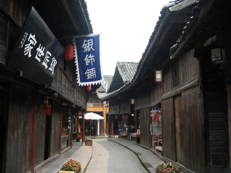 A lane of the Huanglongxi Township near Chengdu, China